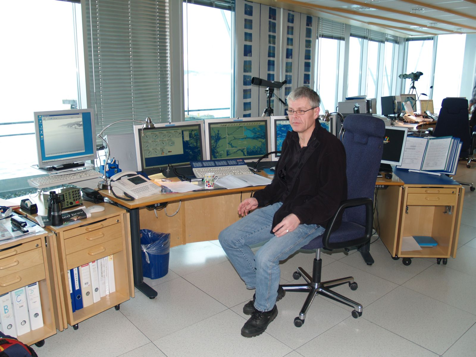 Picture from the VTS (Vessel Traffic Service) central in Horten, Norway. This is a combined VTS and Pilots central. Bild:VTS and pilotage Horten Norway 2006.jpg